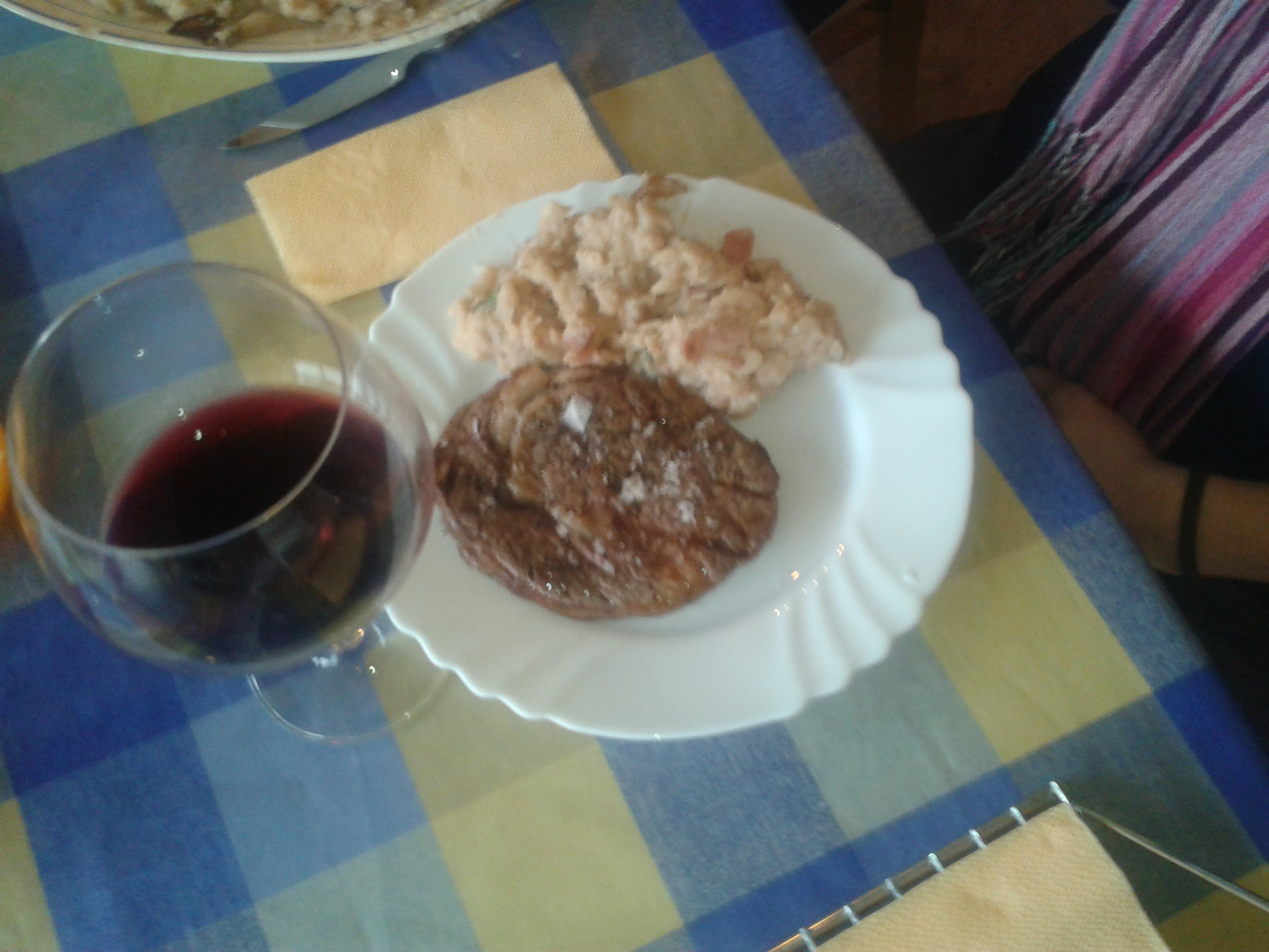 Mongeta del Ganxet, Hook Bean in Catalan.